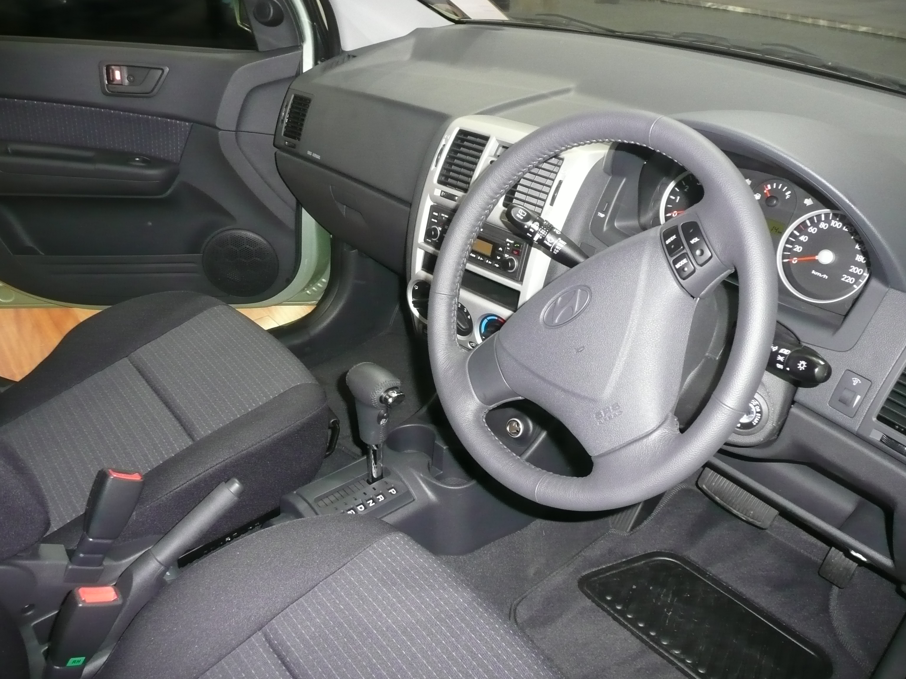 2008 Hyundai Getz (TB MY09) SX 5-door hatchback. Photographed at the 2008 Australian International Motor Show, Sydney, New South Wales, Australia.